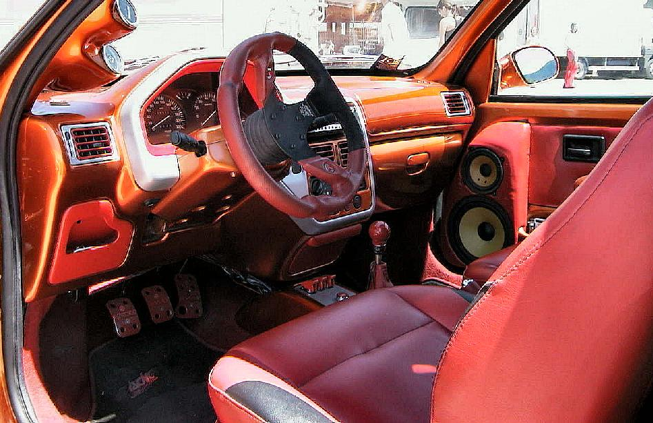 This picture shows the interiors of my modified Peugeot 106.